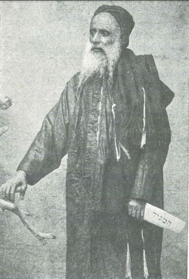 Photo of Rabbi Hayim Hibshush, before 1899 in Sana'a, Yemen